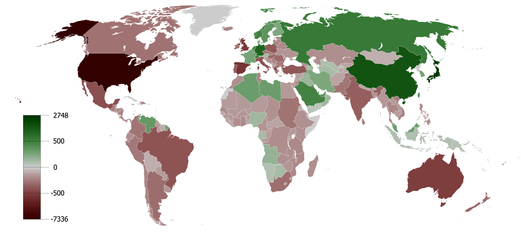 Cumulative Current Account Balance from 1980 till 2008.